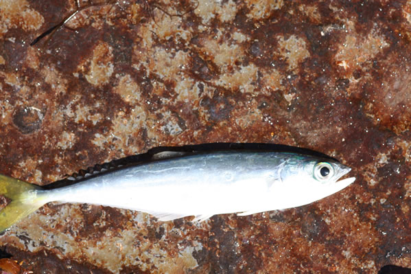 Oligoplites refulgens Guaymas, Mexico